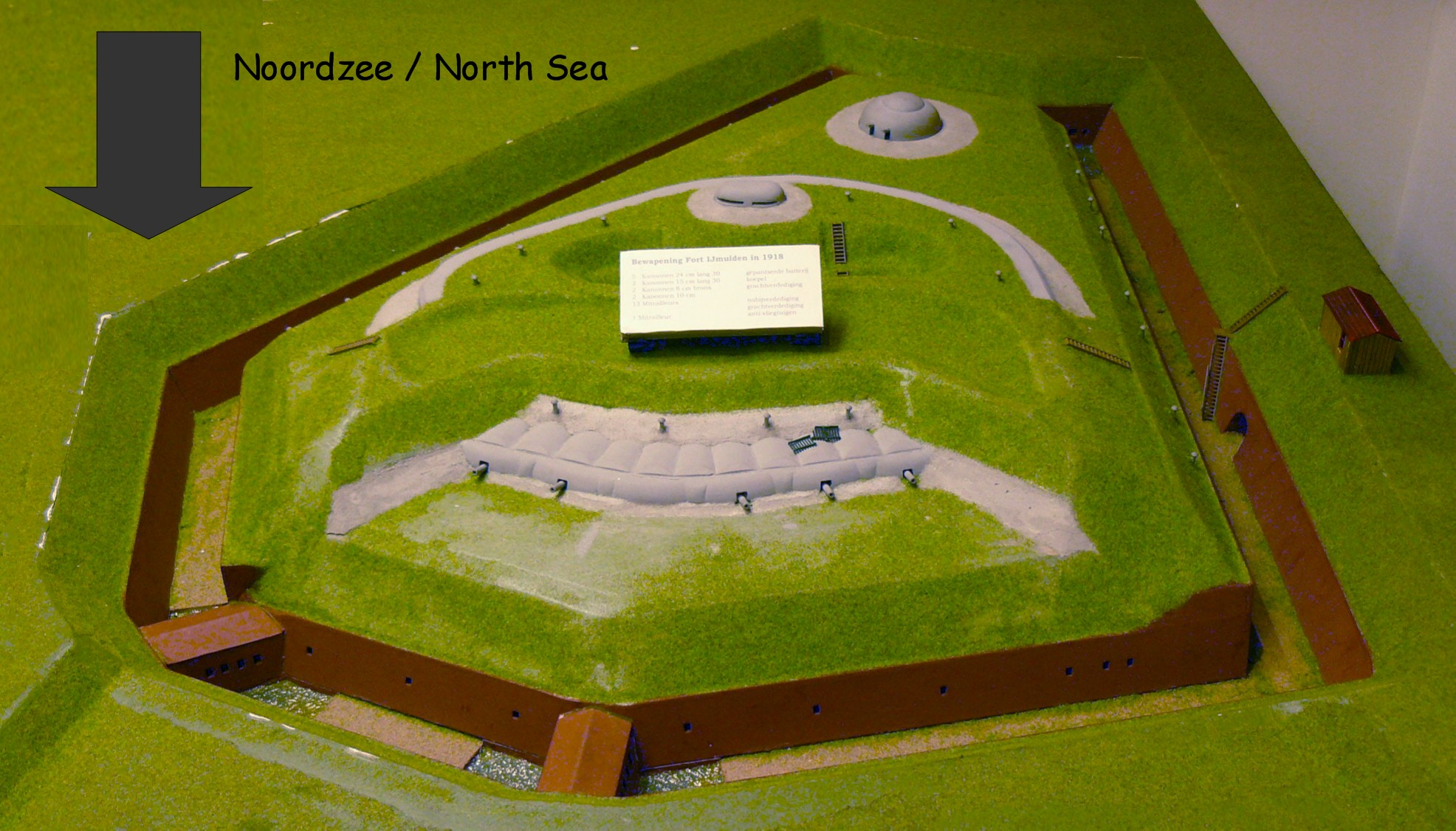 Overview of Fort IJmuiden as seen in the Nederlands Artillerie Museum, 't Harde, The Netherlands